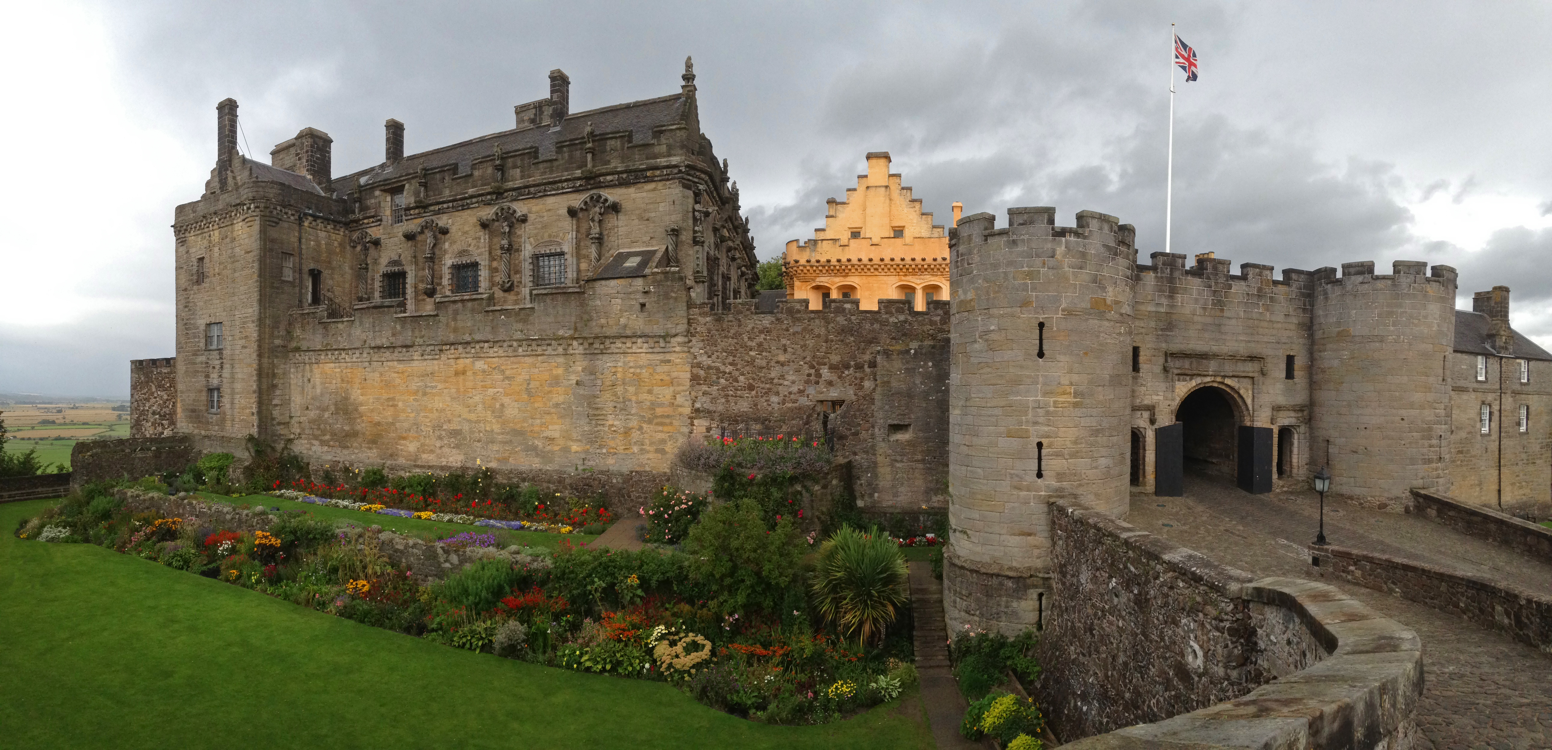 Stirling Castle panoramic view